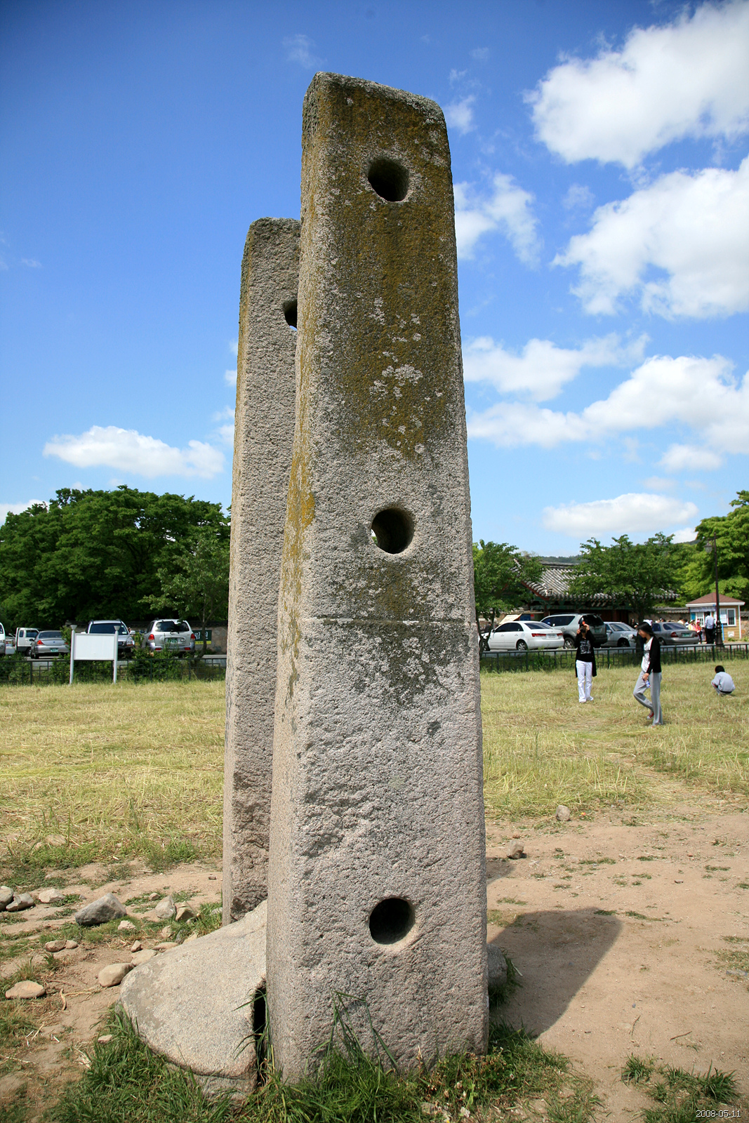 A view of Hwangnyongsa in Gyeongju, North Gyeongsang province, South Korea